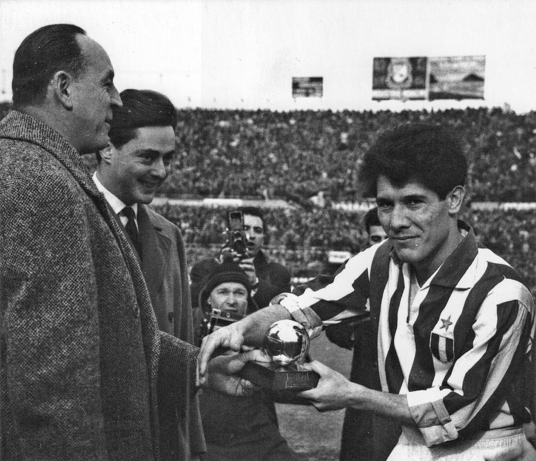 Turin (Italy), Communal Stadium, February 14, 1962. Before the match between Juventus F.C. and Real Madrid C.F. (0-1), 1st leg of the 1961–62 European Cup quarter-finals, Juventus' Omar Sívori (right) receives France Football's 1961 Ballon d'Or as best European footballer — as an Italian-Argentine Oriundo —; observes the scene Umberto Agnelli, Juventus' president (2nd from left).